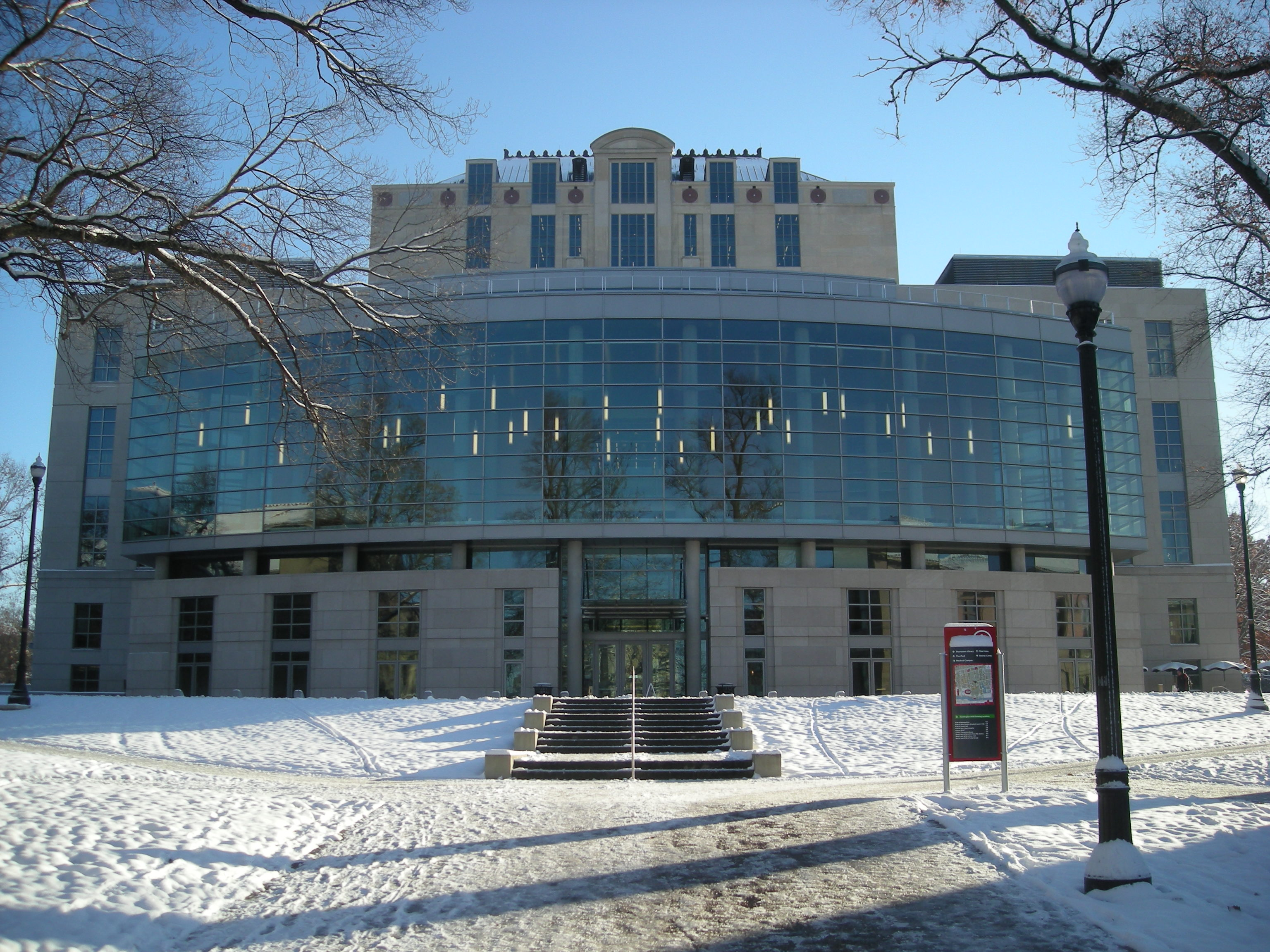 The Thompson Library on the campus of The Ohio State University in Columbus, Ohio (United States).